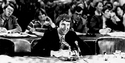 Gerard K. O'Neill testifying before the Senate Subcommittee on Aerospace Technology and National Needs on January 19, 1976